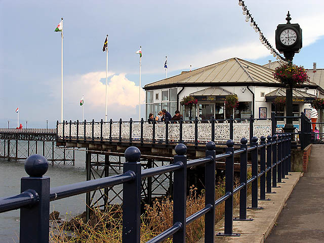 Mumbles Pier. Seafront and Pier at Mumbles.